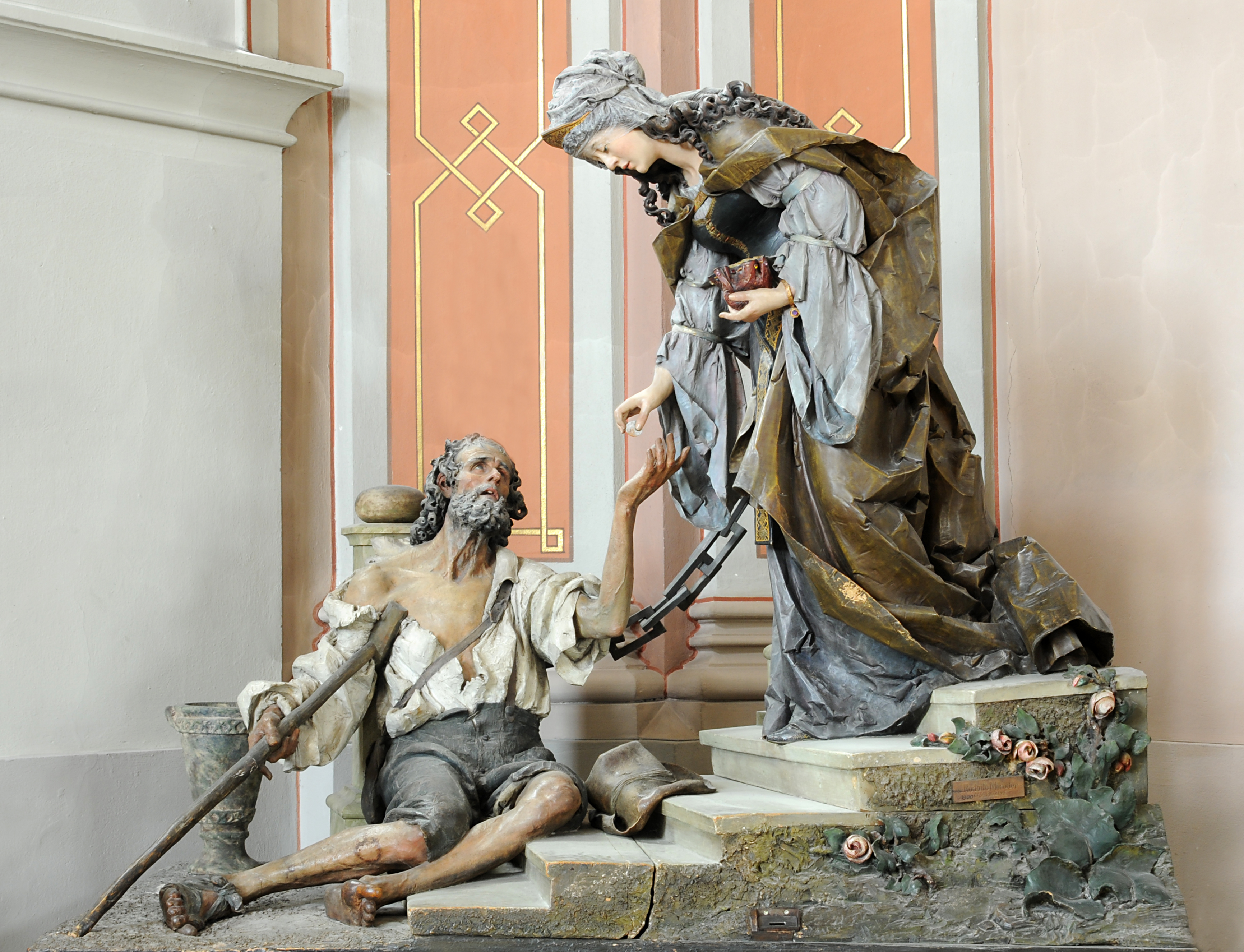 The group of Saint Elisabeth. Sculpture in wood by Rudolf Moroder polychromed by Christian Delago in the Parish church of Urtijëi 1900